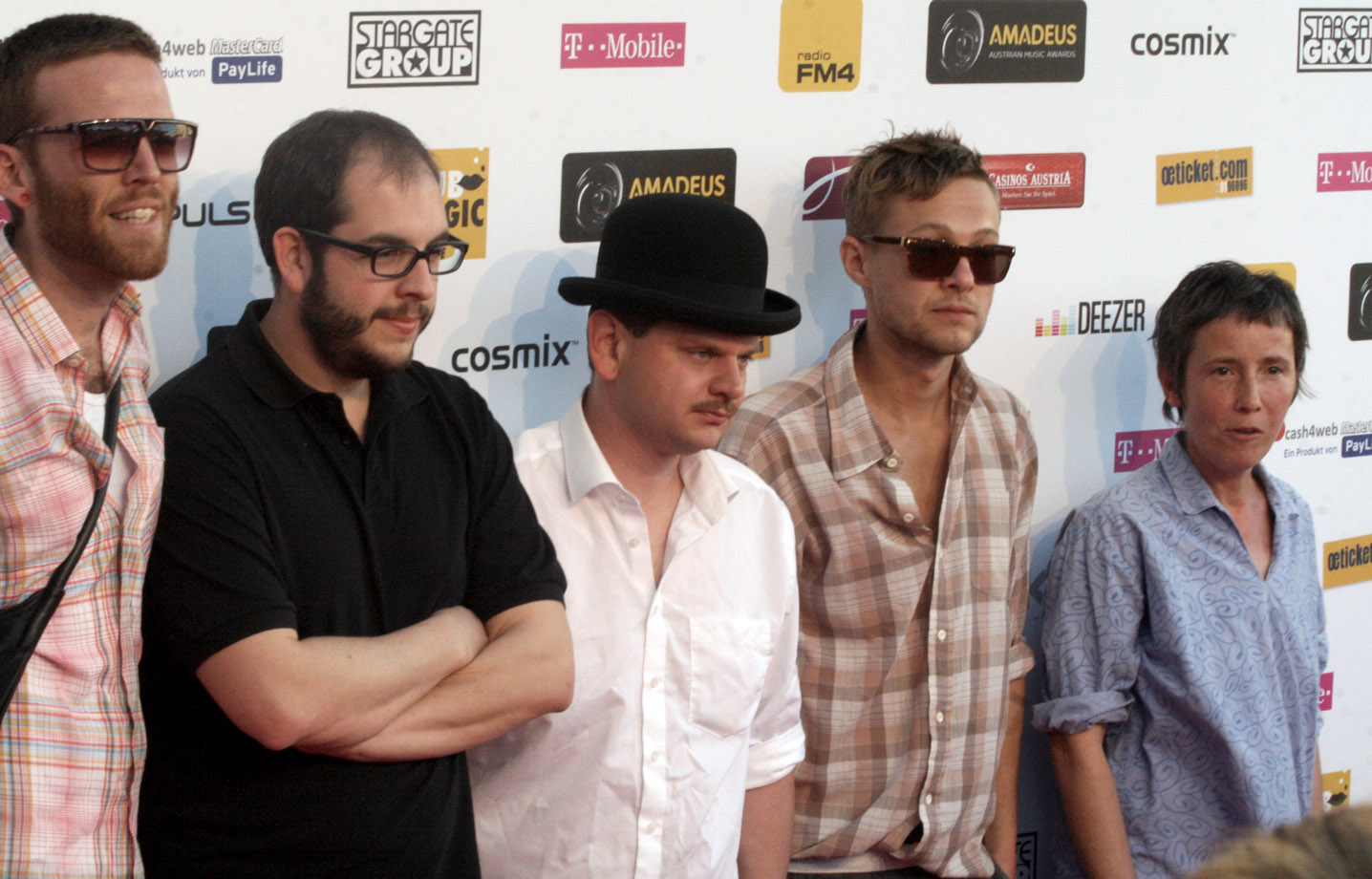 5/8erl in Ehr'n, Amadeus Austrian Music Award 2012 at the Volkstheater in Vienna, Austria.